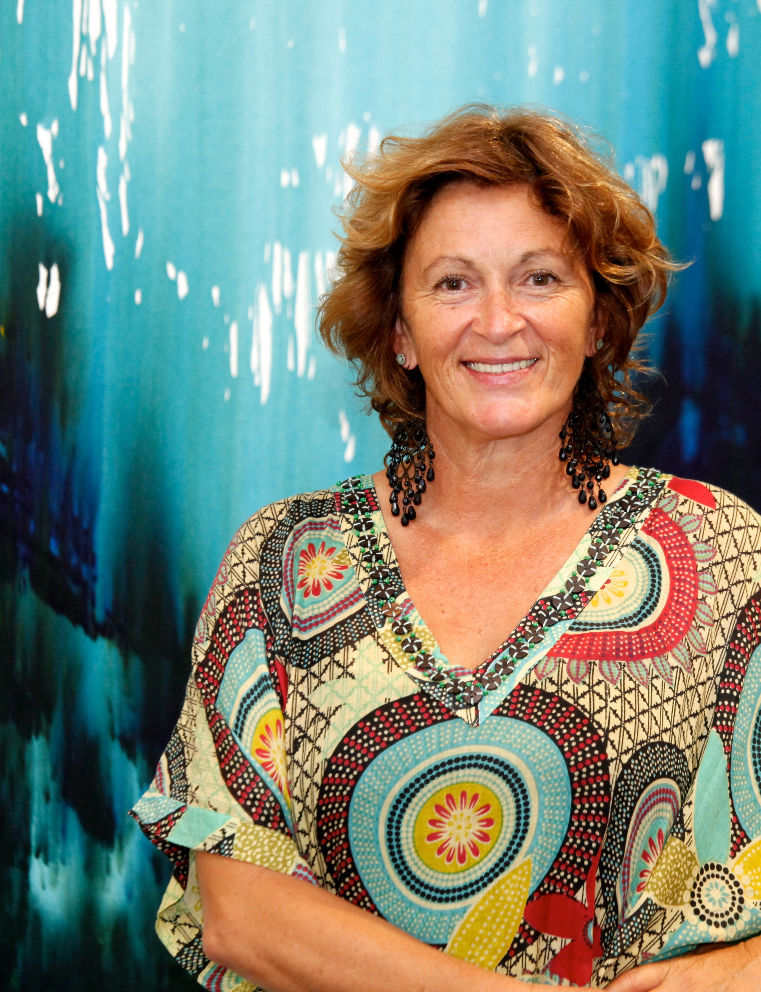 Portrait of subject